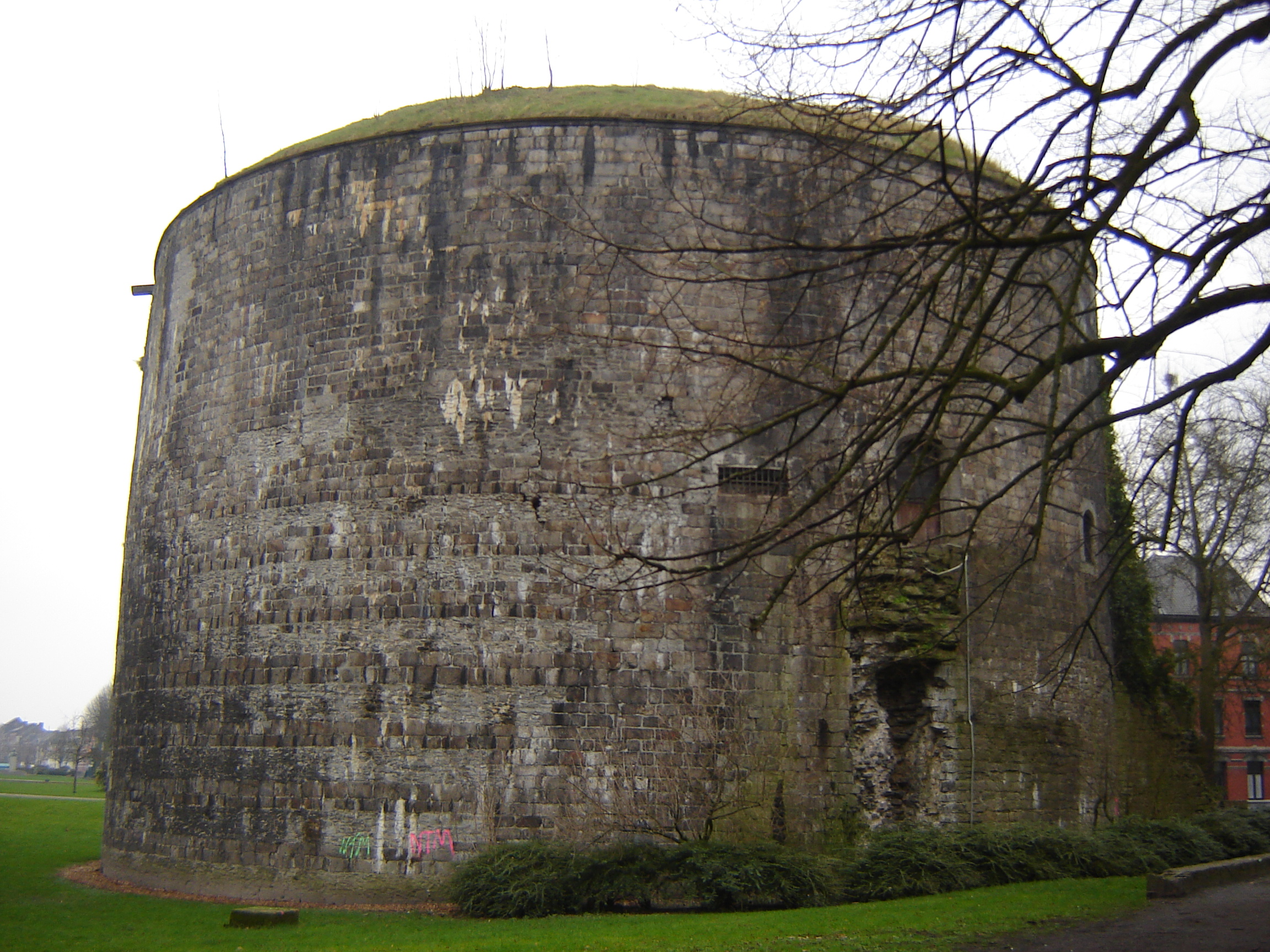 Tower of Henri VIII, built during English occupation in 1513-1518. Tournai, Hainaut, Belgium.